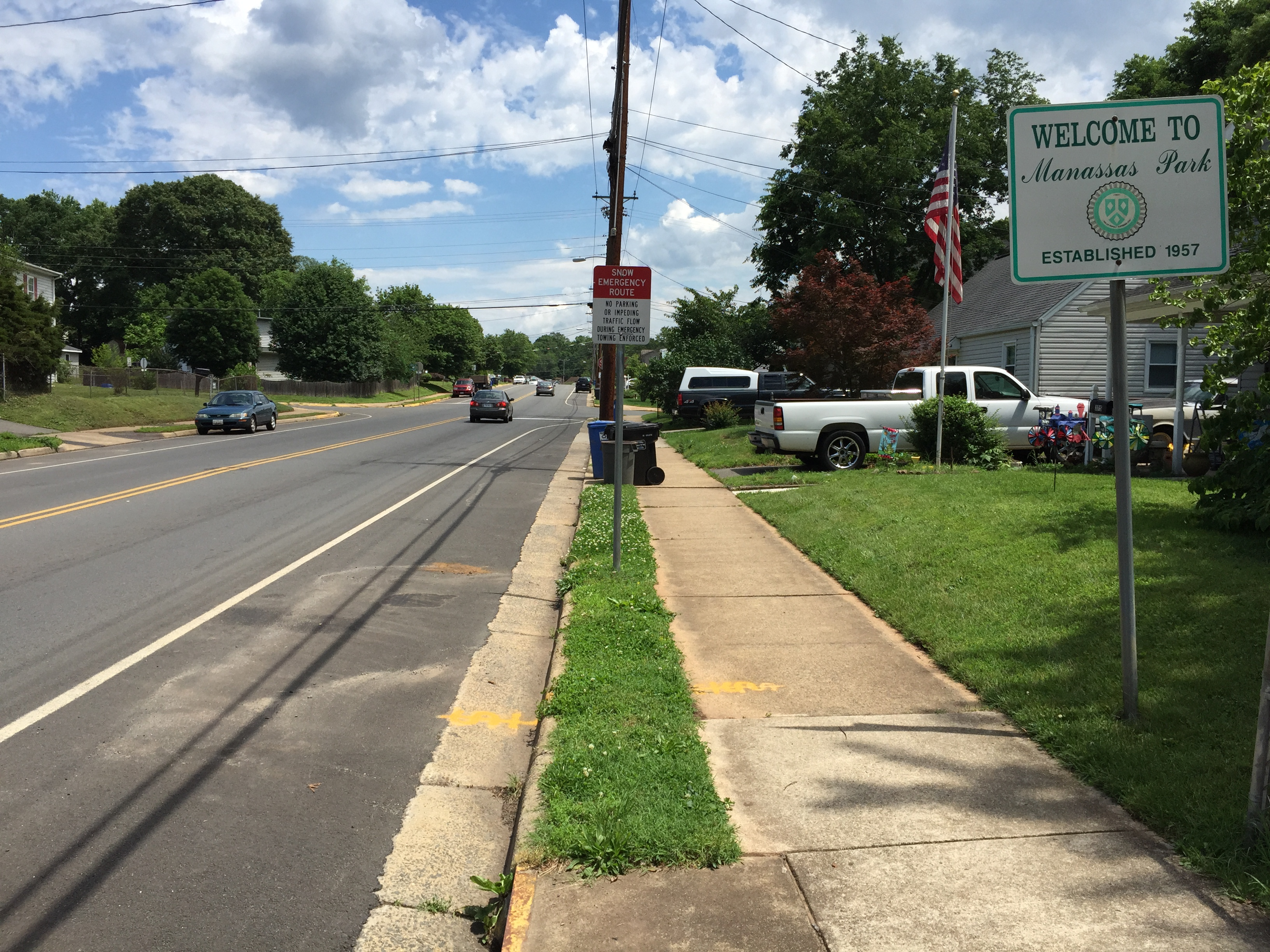 View east at the west end of Virginia State Route 213 (Manassas Drive) between Appomattox Avenue and Mace Street in Manassas Park, Virginia